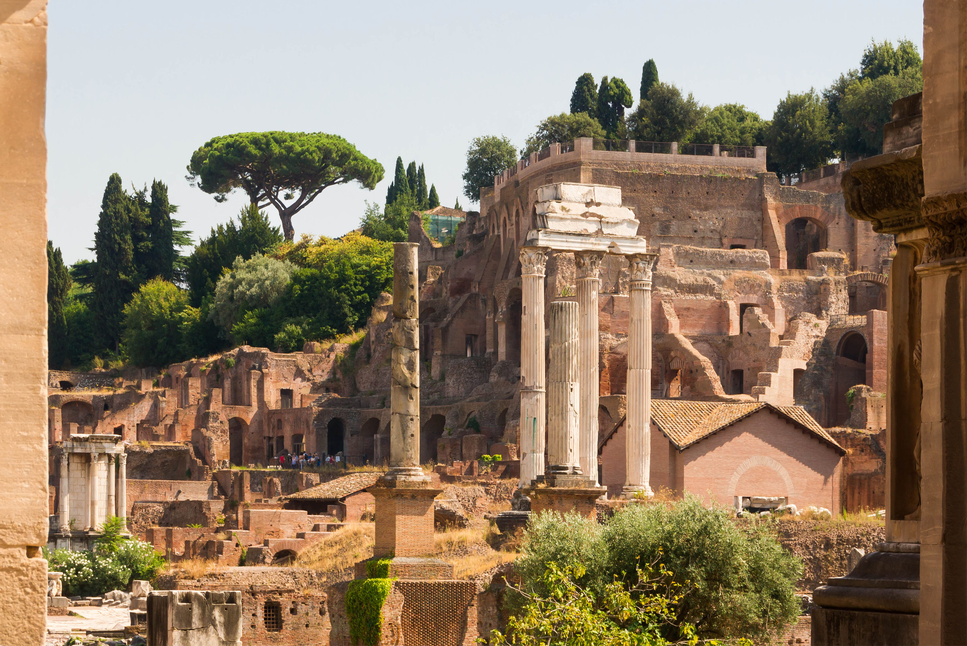 Part of the Forum Romanum, as seen through the Arch of Septimius Severus. Rome, Italy.